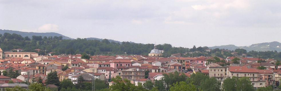 Lioni landscape